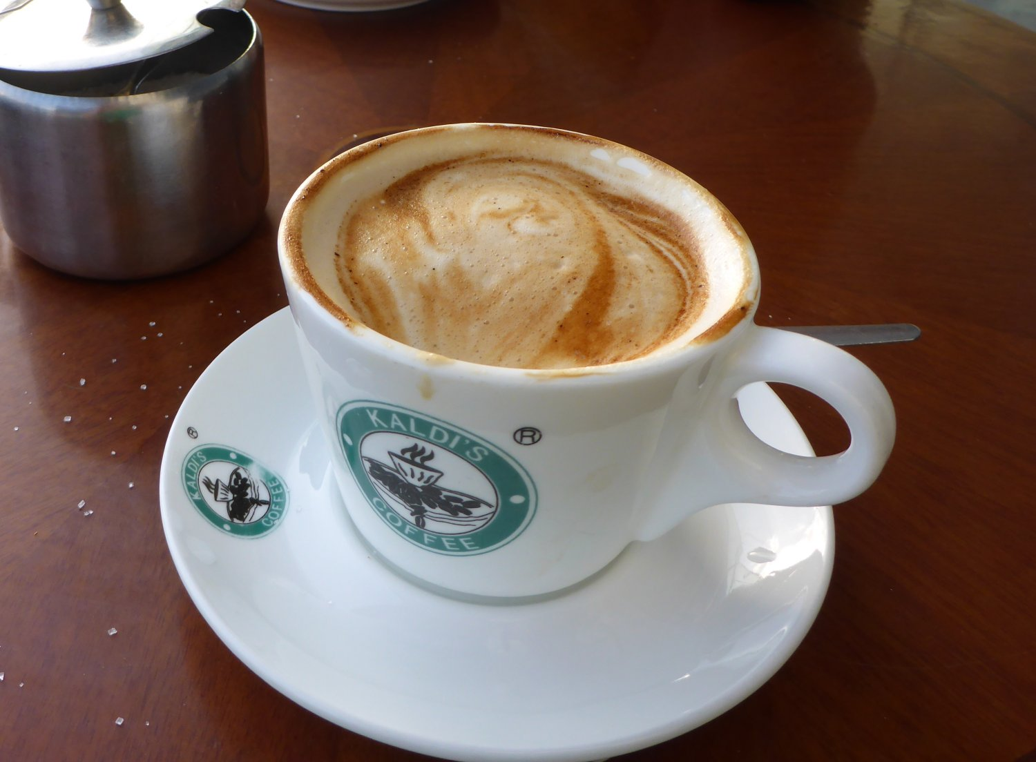 Ethiopia is well known for its caffè macchiato. This is a cup at Kaldi's, a coffee shop chain similar to the Starbucks.